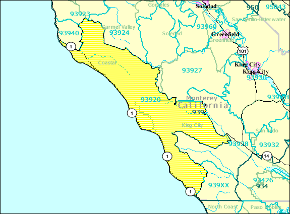 ZIP Code Tabulation Area for 93920 (Big Sur, Monterey County, California) created on-the-fly from 2000 US Census TIGER files on April 26, 2009; 65 miles across; may no longer correspond to USPS ZIP boundaries